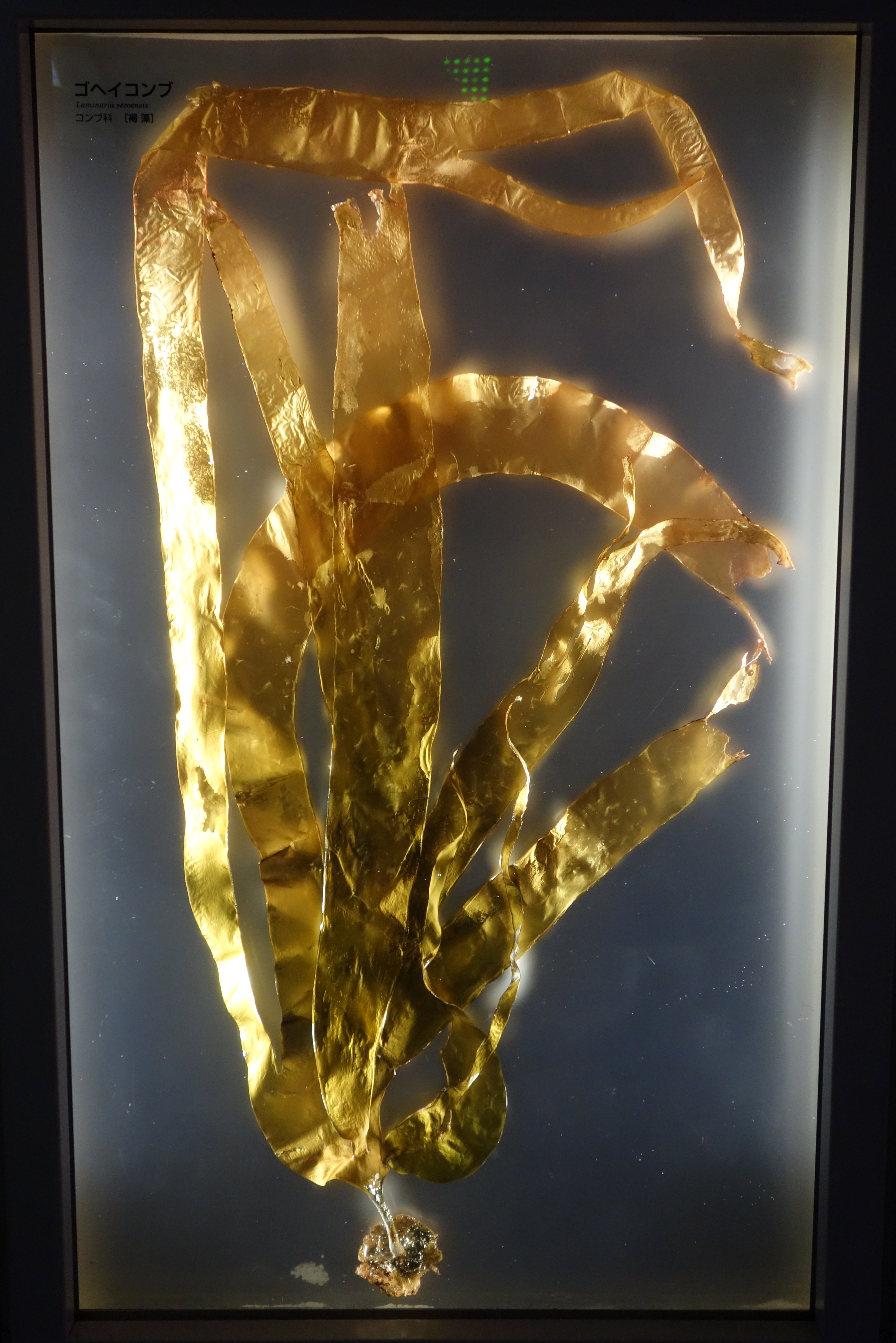 Exhibit in the National Museum of Nature and Science, Tokyo, Japan.